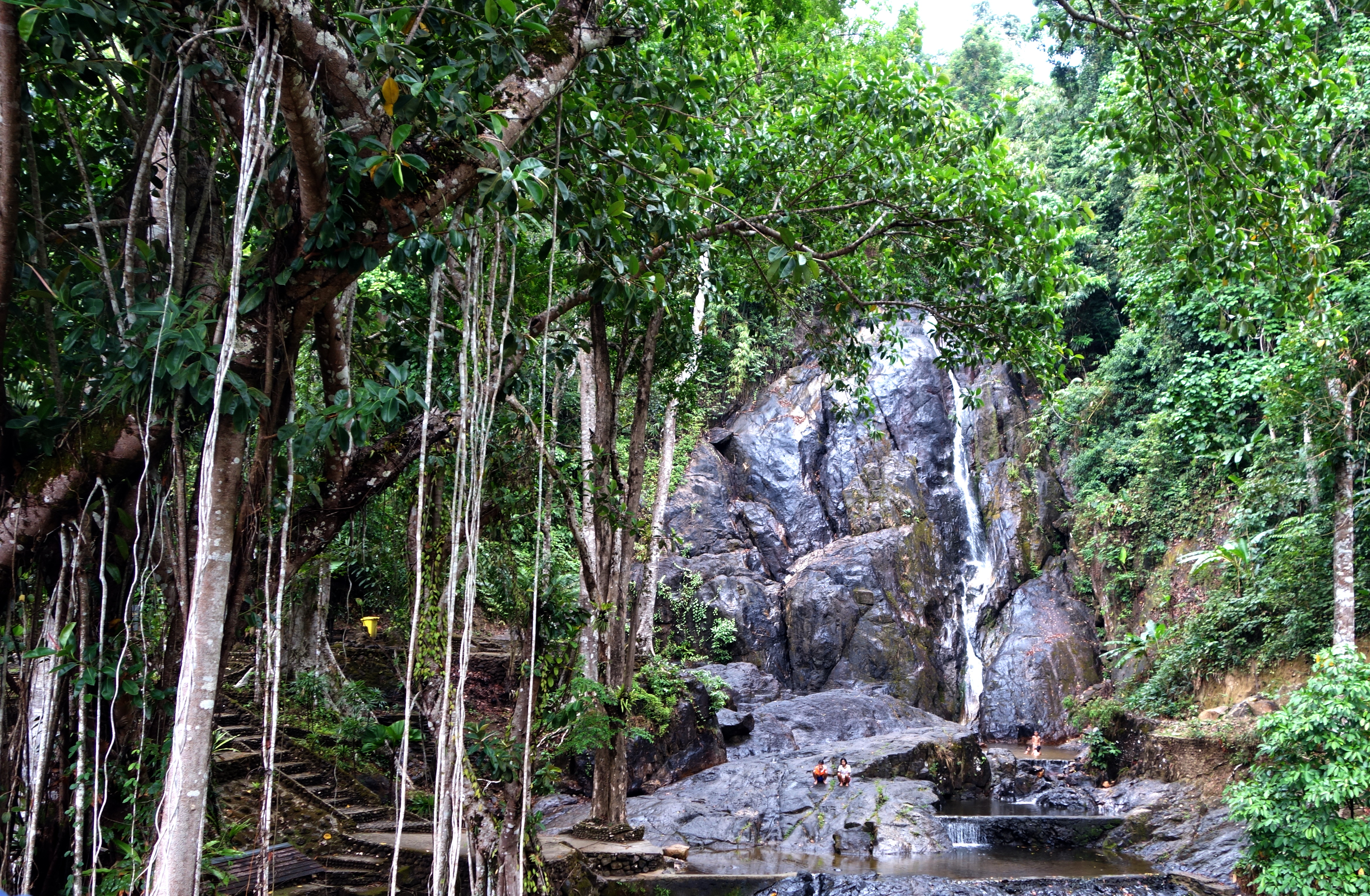 Namtok Punyaban (น้ำตกปุญญบาล)